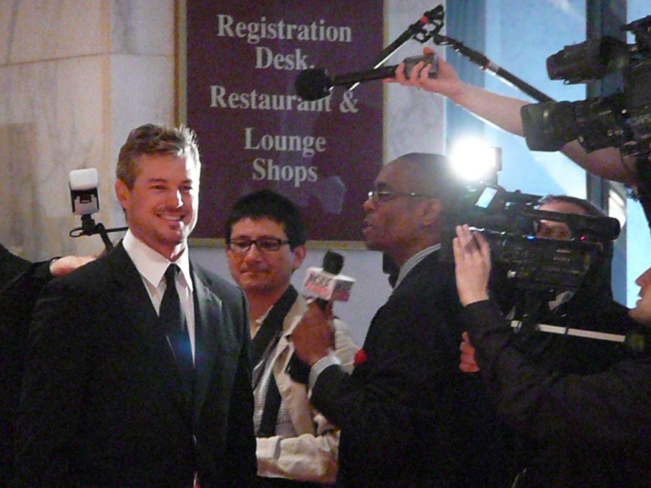 Eric Dane, red carpet of the White House Correspondents' Association dinner